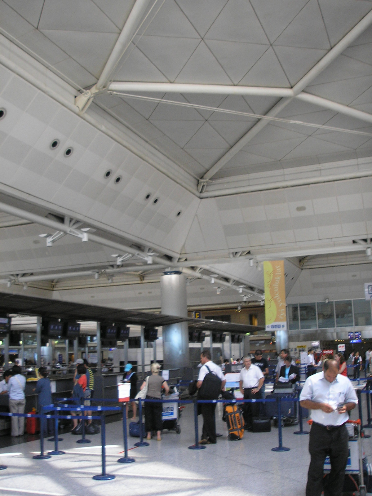 Central air terminal of Atatürk International Airport.